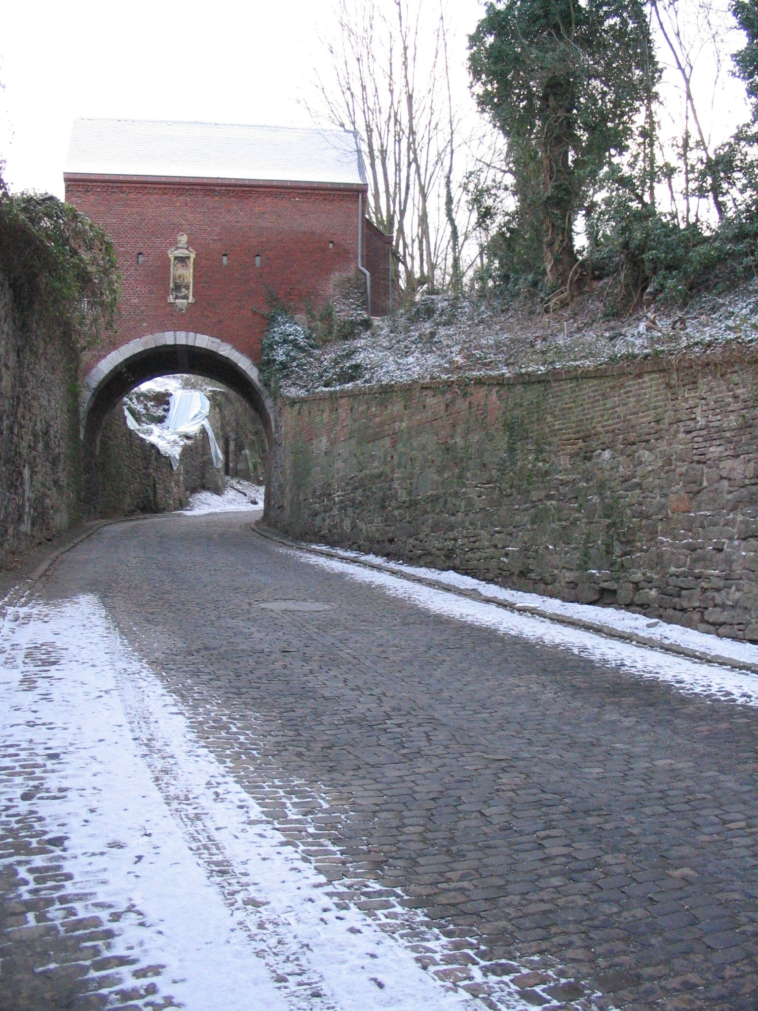 Old bridge in Liege (Belgium) -- Arvaux des Chartreux